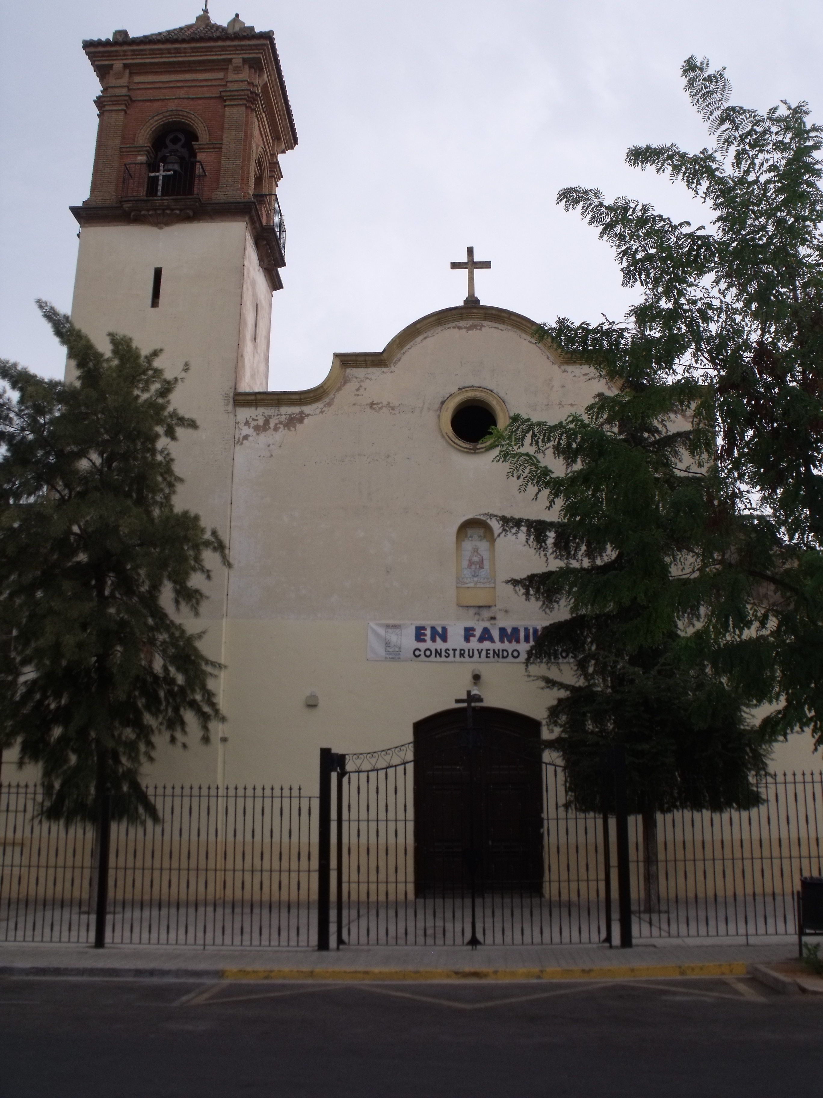 Church of the Holy Heart in Burjassot, Valencia. 13.078-003.